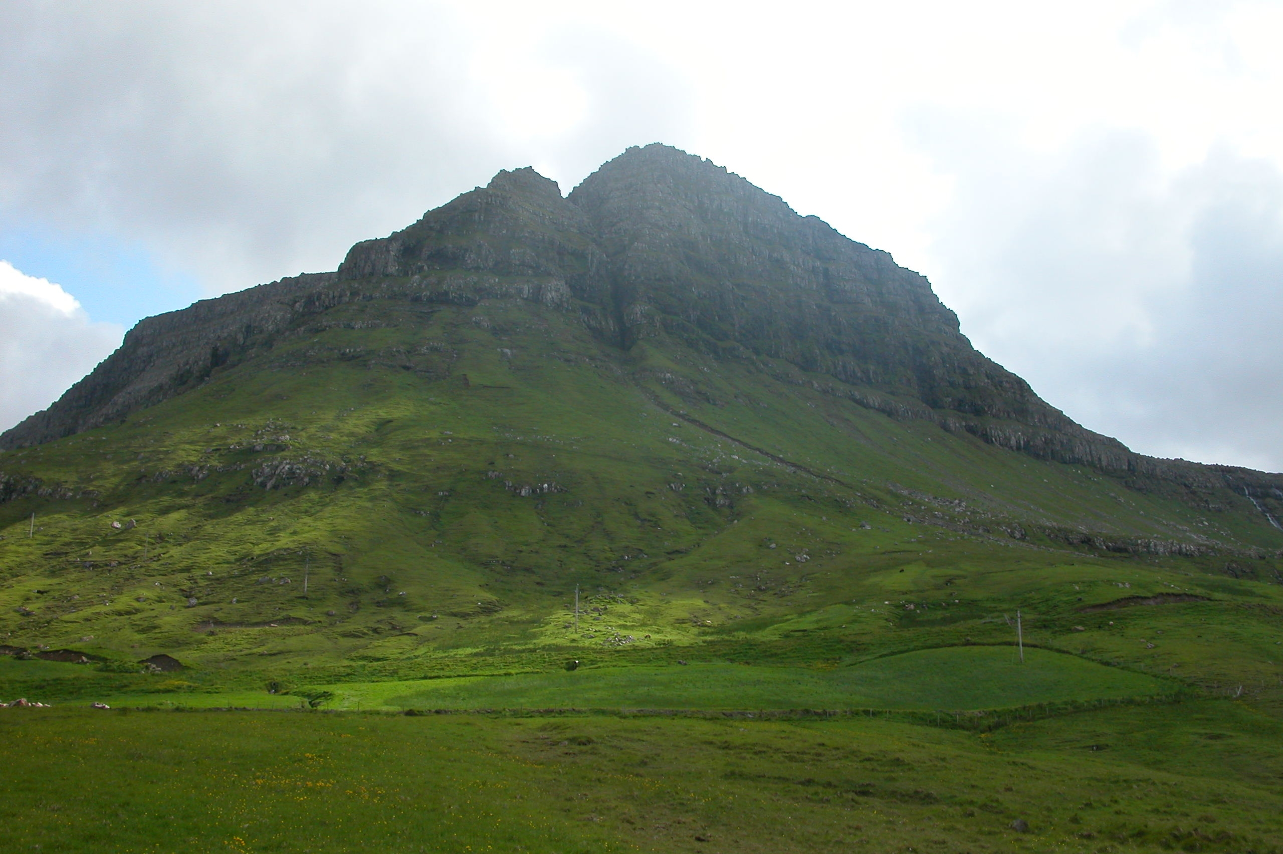 Mountain at Syðradalur on Streymoy, Faroe Islands